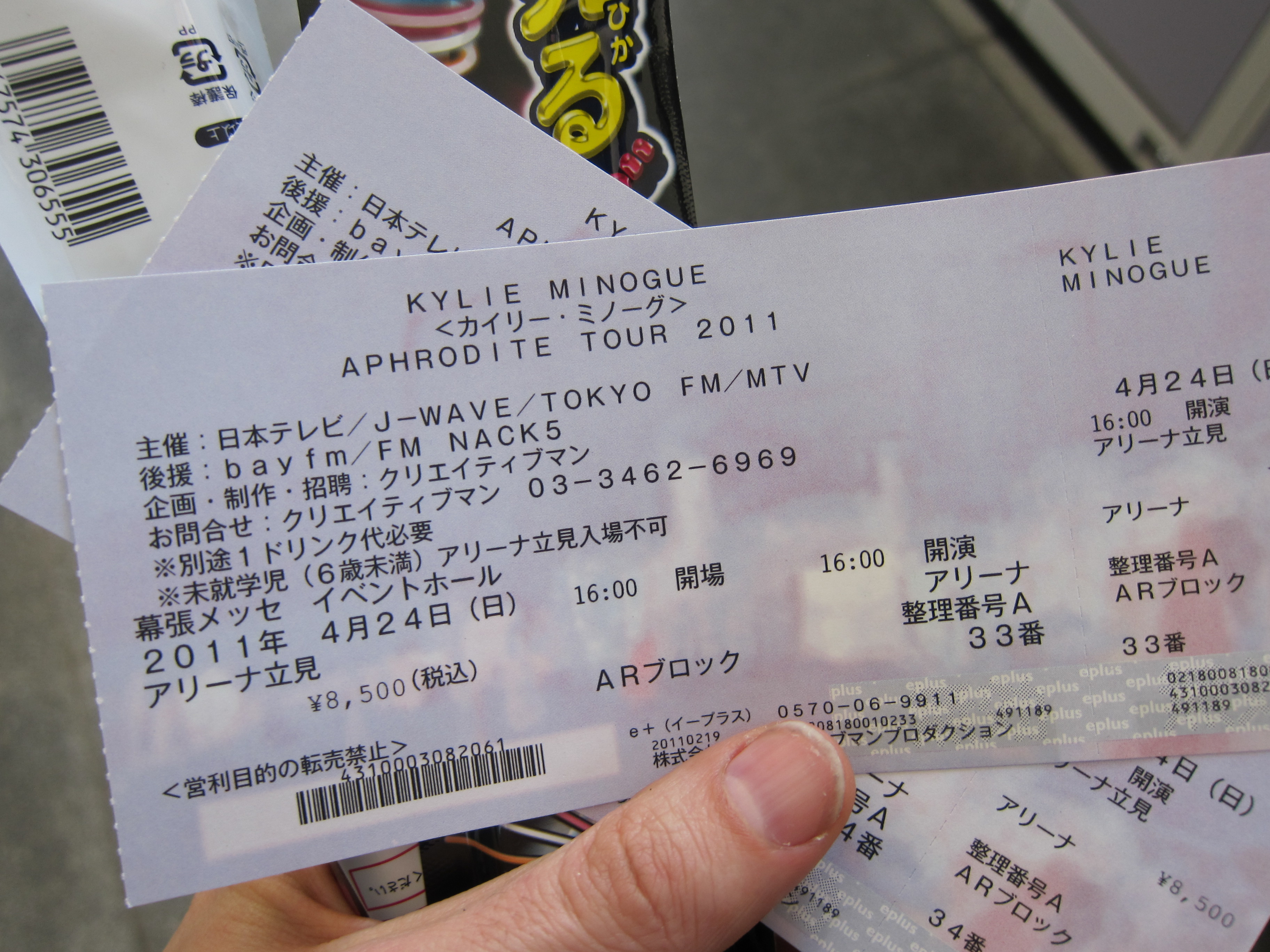 Tickets of Aphrodite Tour 2011, musical tour of Kylie Minogue, purchased in Tokyo, Japan, where the singer performed in Chiba on April 24, 2011.